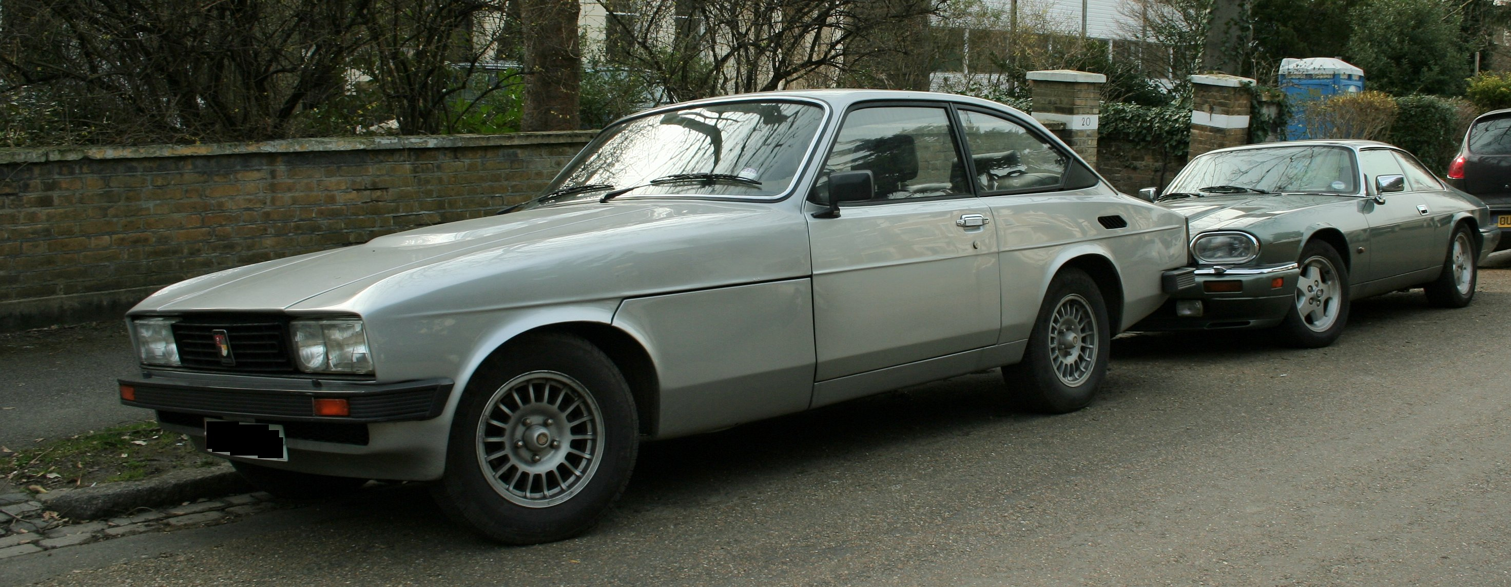 Bristol Brigand (car, not aeroplane) Taken (by uploader) Mon12Mar07, London, UK